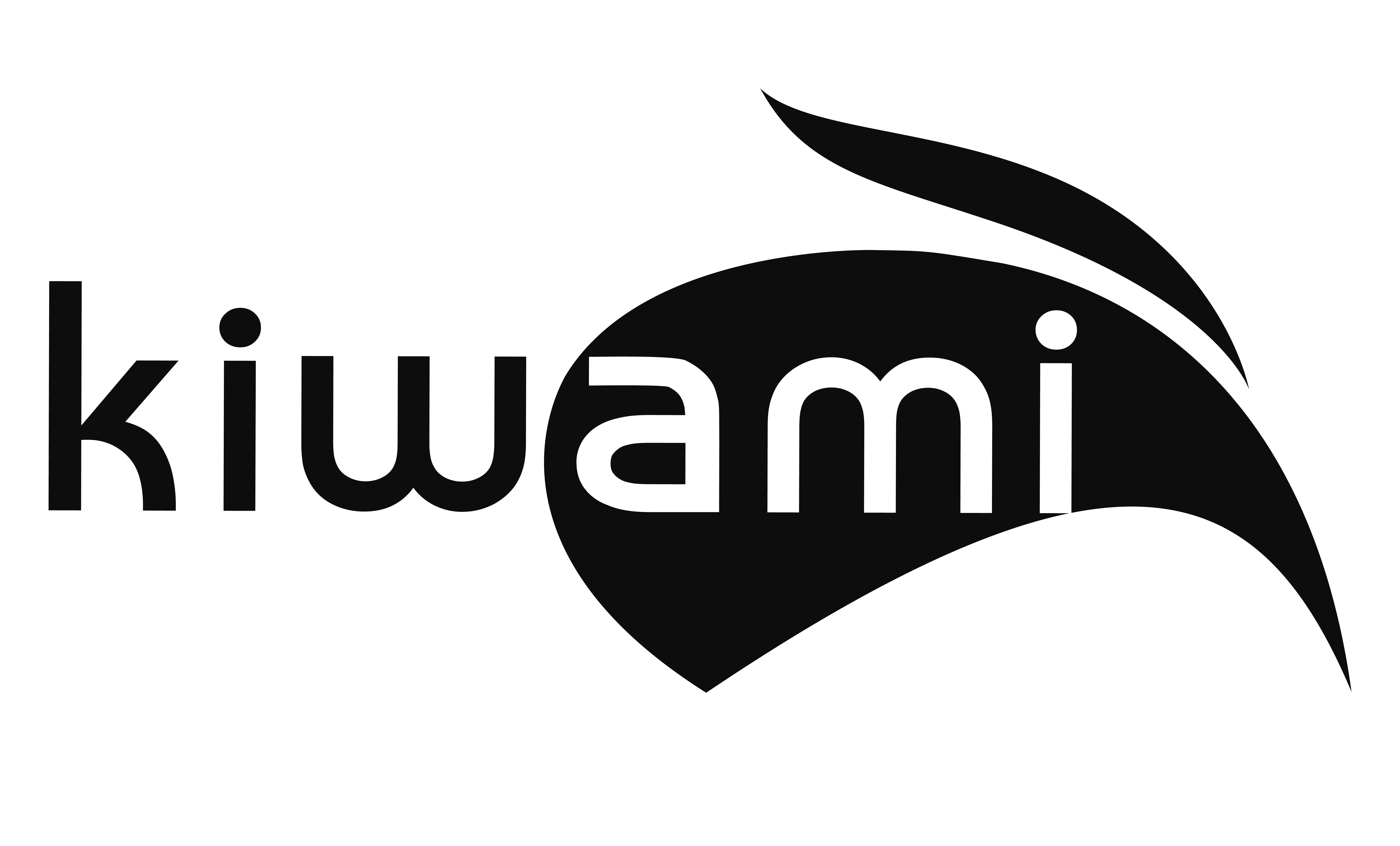 Logotype official